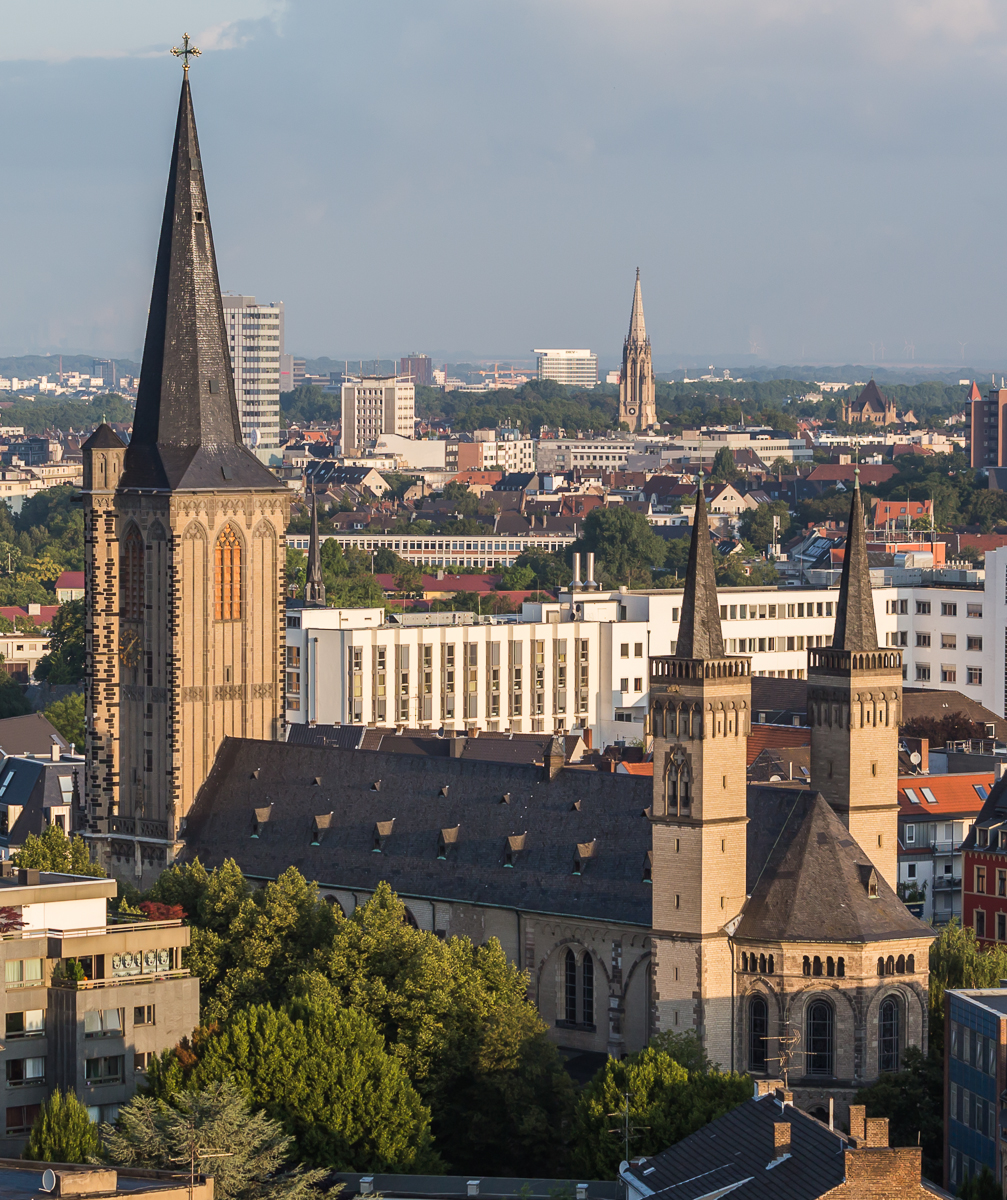 Hot air balloon trip across Cologne